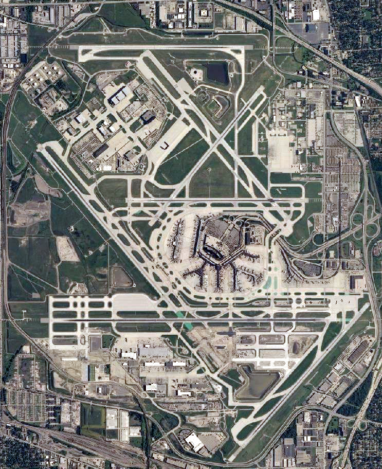 Satellite image of Chicago O'Hare International Airport